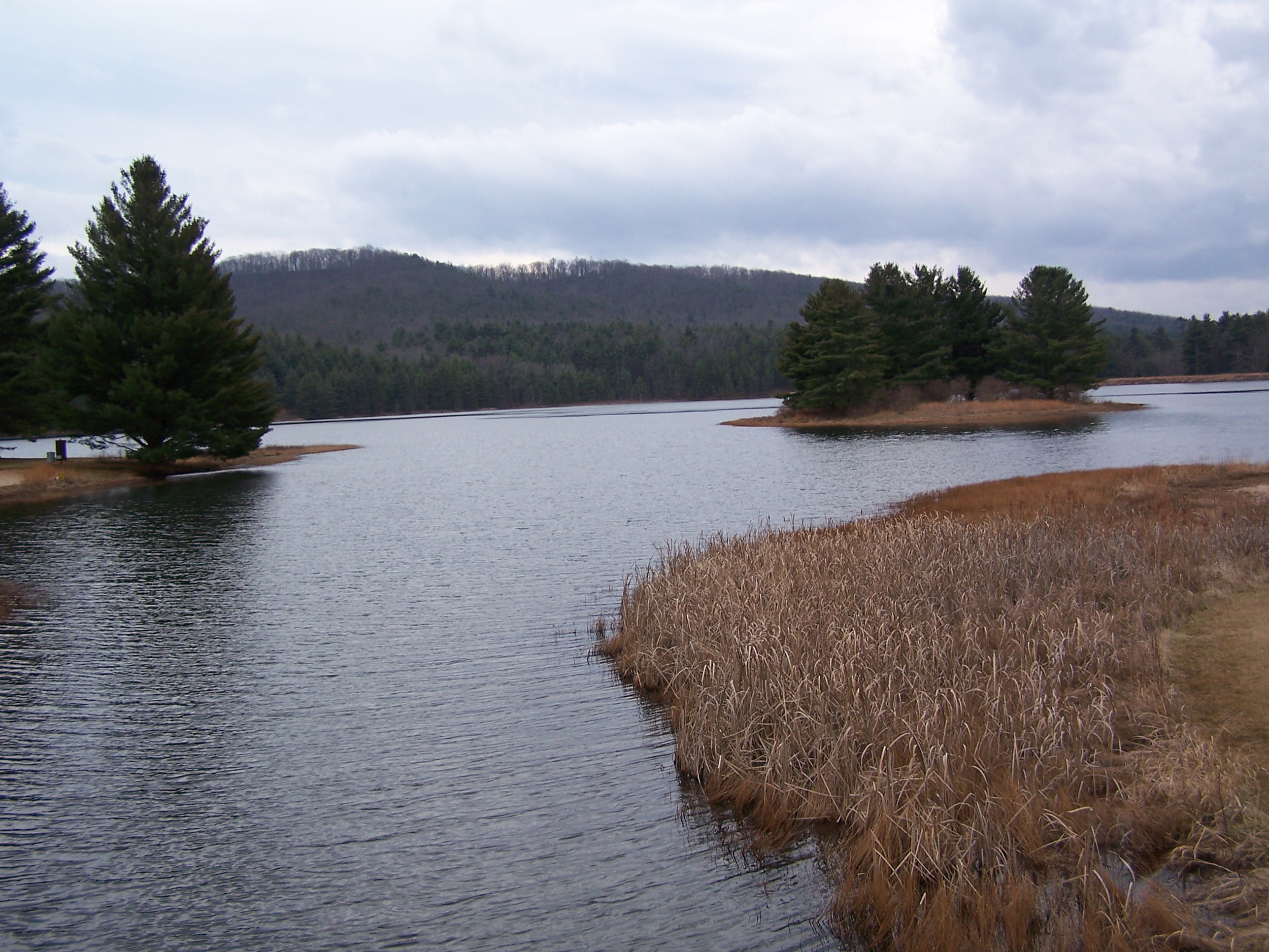 Photo of Lake Sherwood in Greenbrier County, West Virginia. Part of Monongahela National Forest. Photo taken on January 13, 2006 by Brian M. Powell.